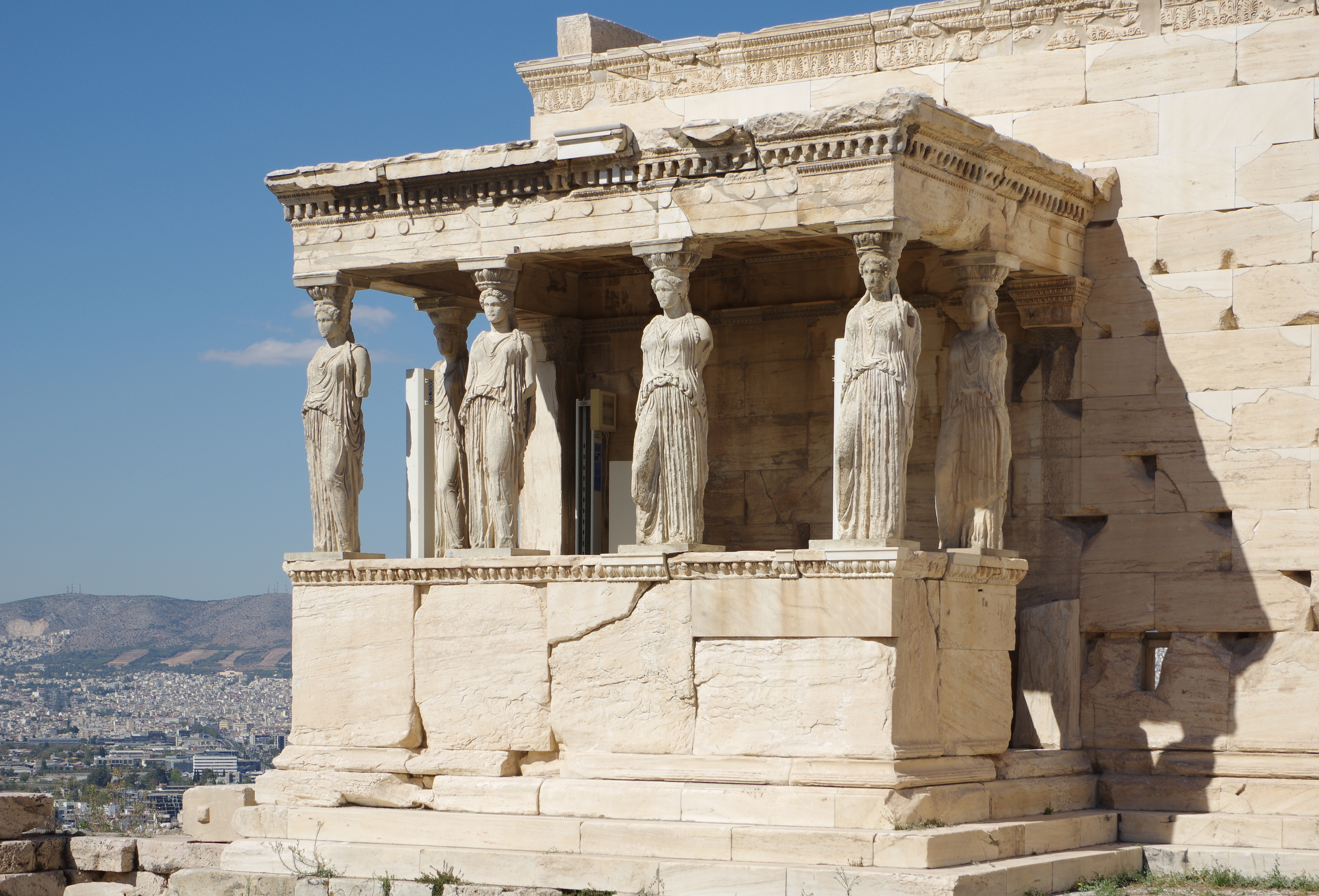 Greece, Athen, Acropolis, Erechtheion